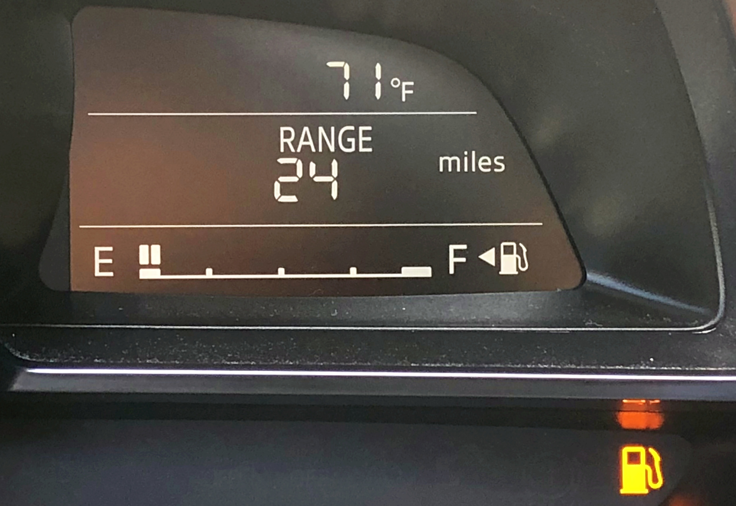 The digital fuel gauge on a 2018 Mazda 3, showing a nearly-empty tank with the low fuel level warning light illuminated.